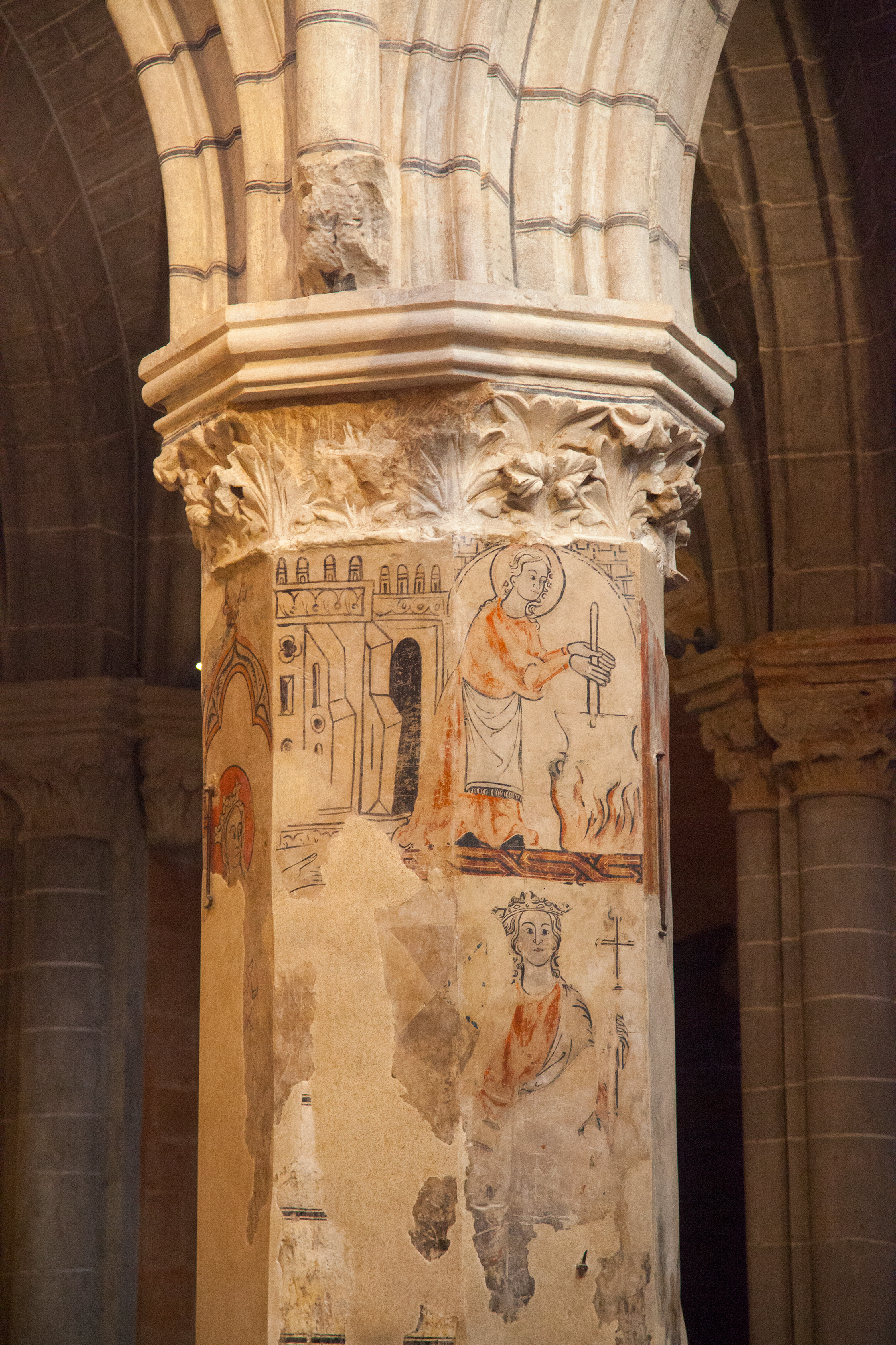 In one of the pillars of the transept of the cathedral appeared this medieval painting.